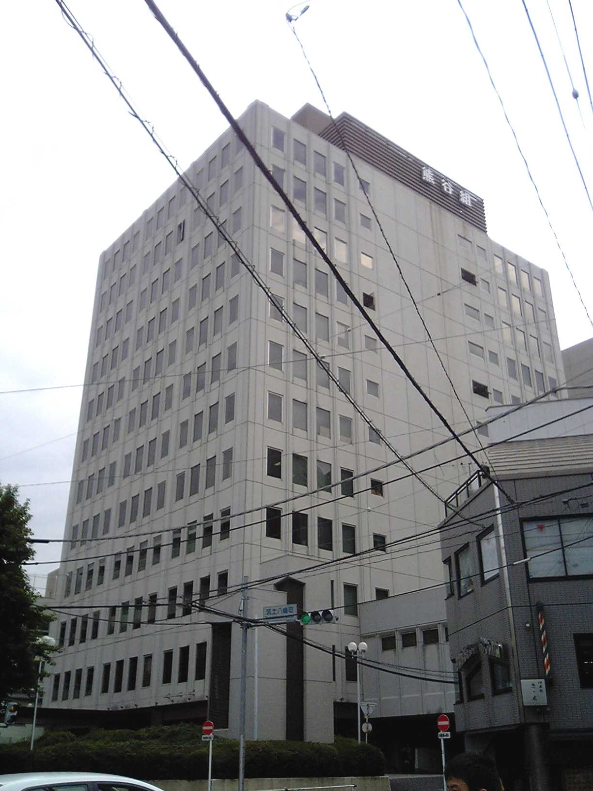 Kumagai Gumi head office